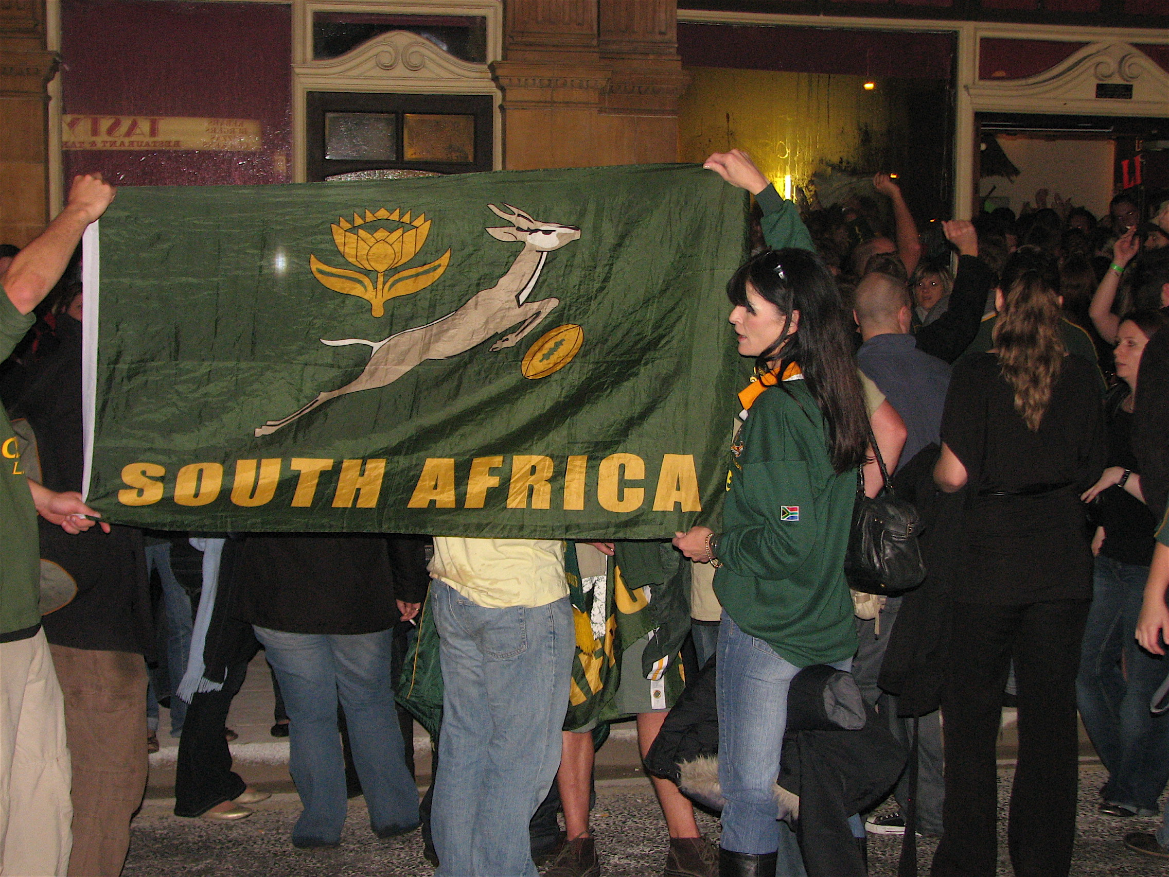 South Africa Rugby World Cup 2007 Winners Fiesta in London Celebrating World Cup Victory